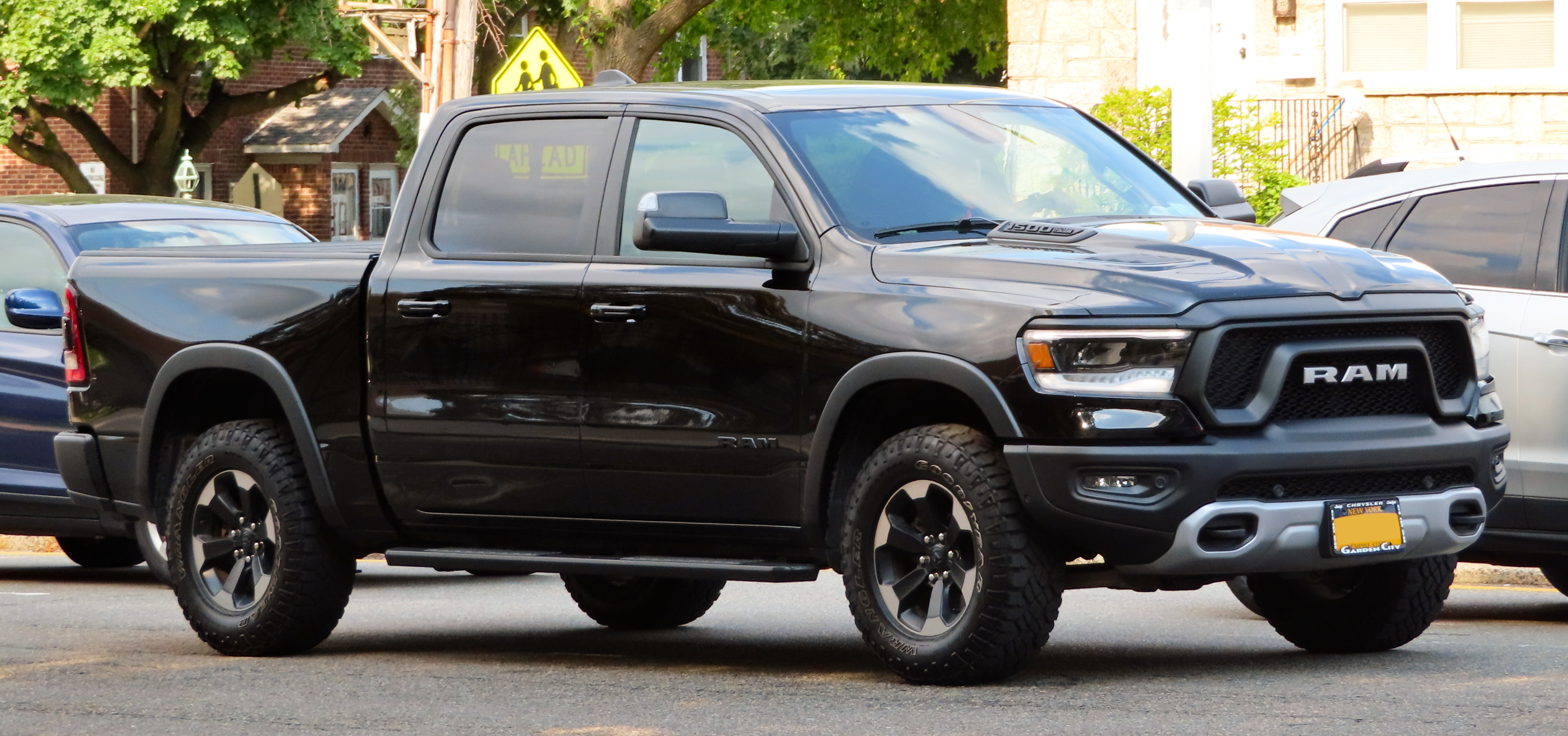 A 2019 Ram 1500 Rebel photographed in Queens, New York, USA